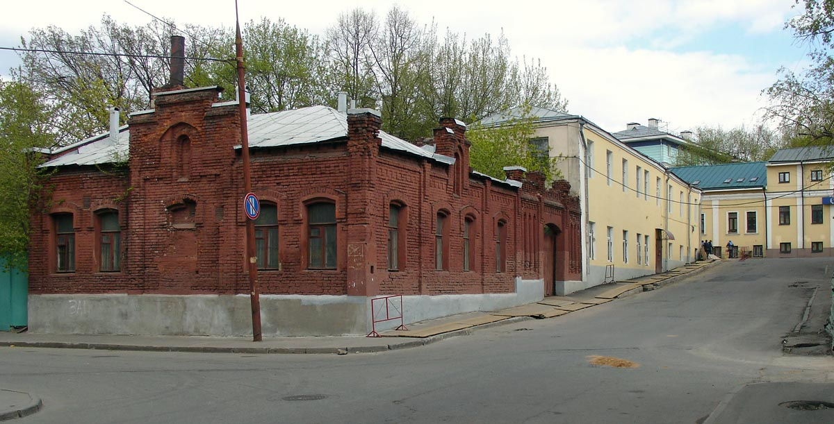 Aristarkhovsky Lane, Moscow - corner of Maly Drovyanoy Lane (left)